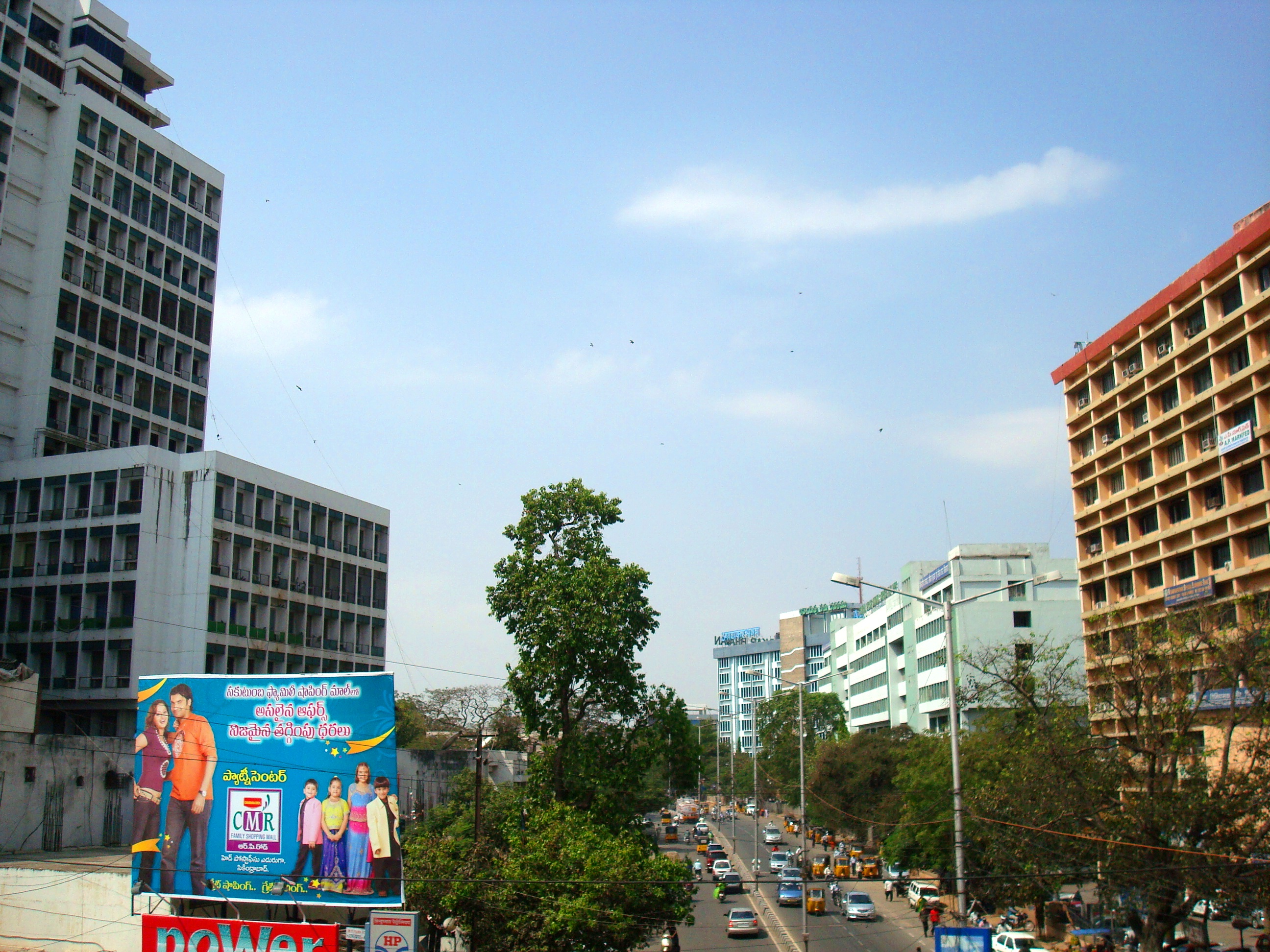 This picture shows the Basheerbagh main road, which houses important government and coomercial buildings.This picture has been taken from the flyover at Basheerbagh. self-photographed.